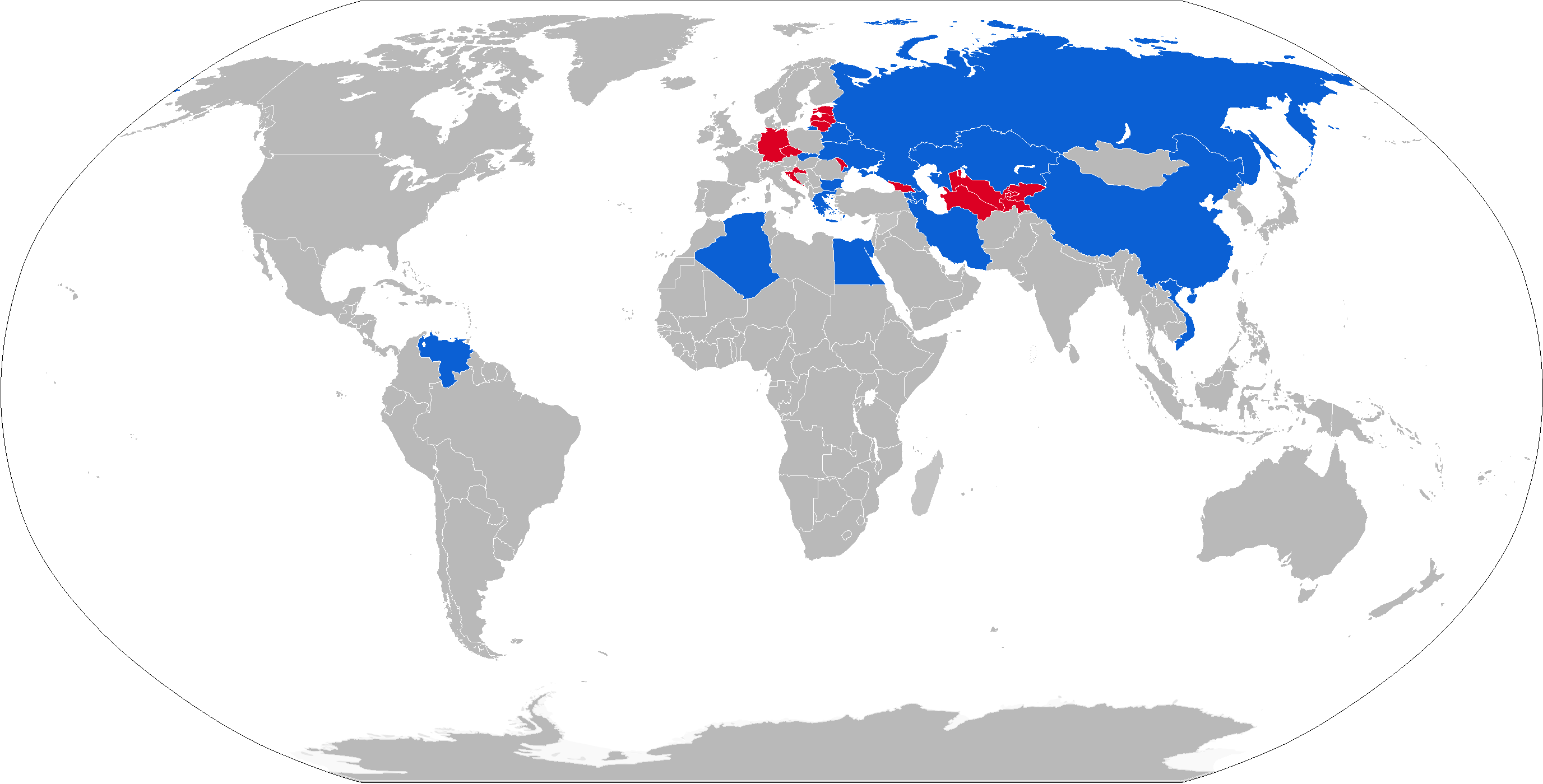 S-300 Operators